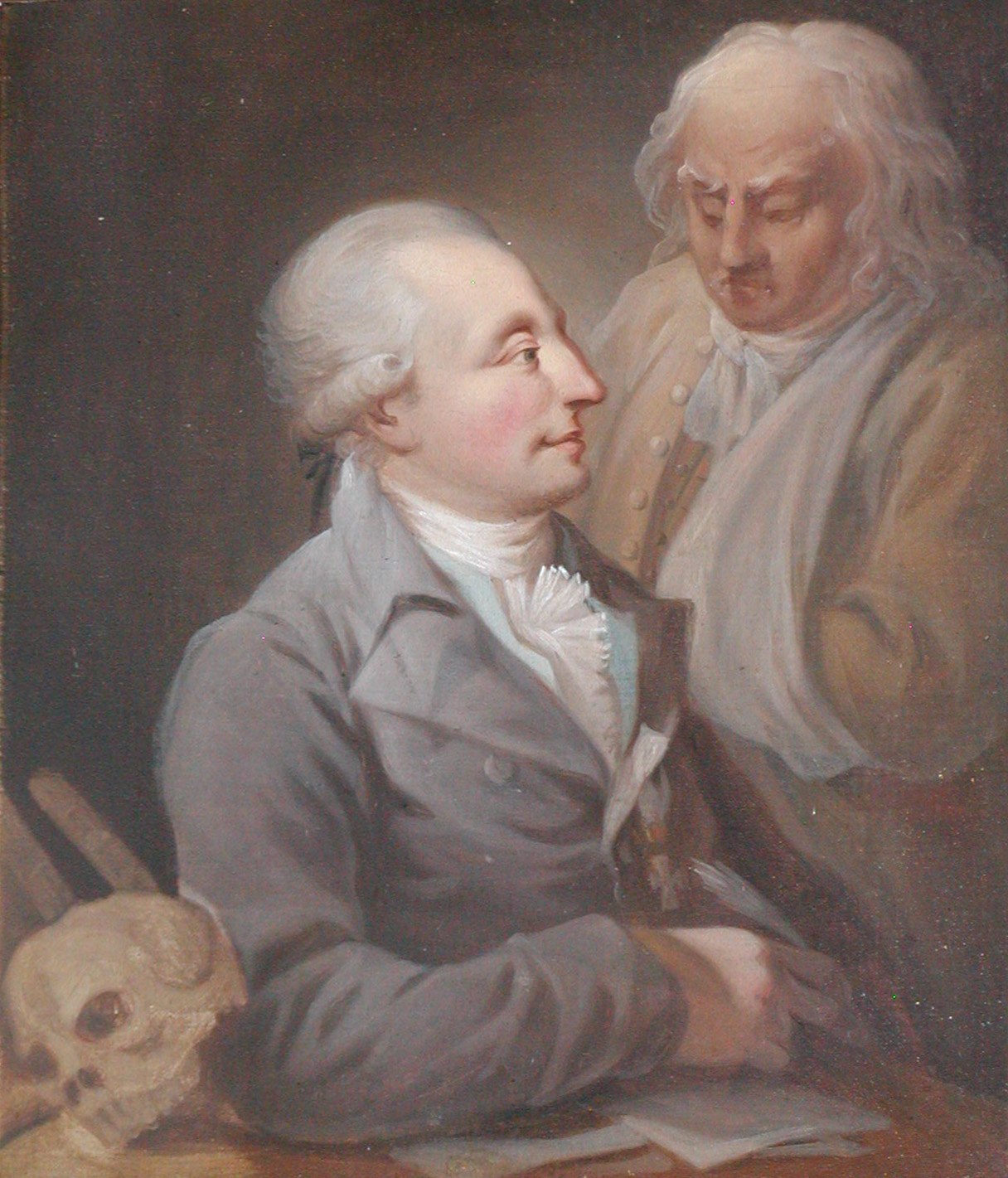 Portrait of Frederik Christian Winsløw (1752-1811)